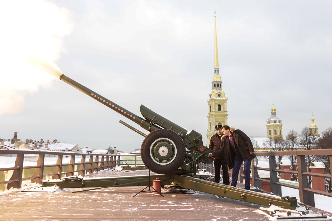 The traditional midday cannon shot from the Naryshkin Bastion of the Peter and Paul Fortress on February 8, 2020 fired by Prof. N. Kuznetsov in honor of the birthday of St. Petersburg University.